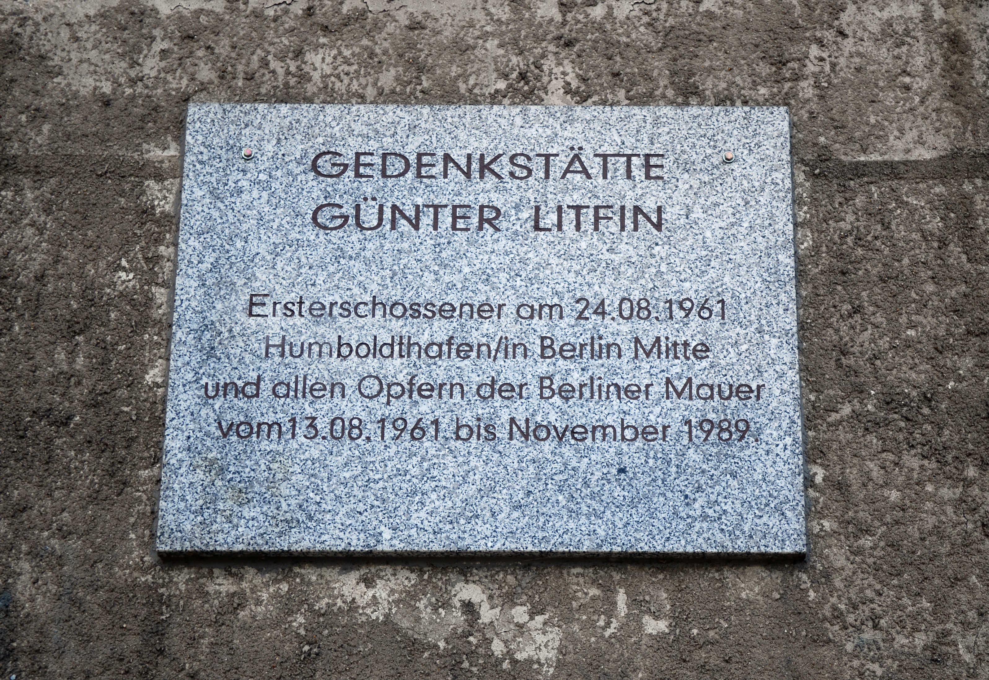 This image shows a memorial stone for Günter Litfin in Berlin.